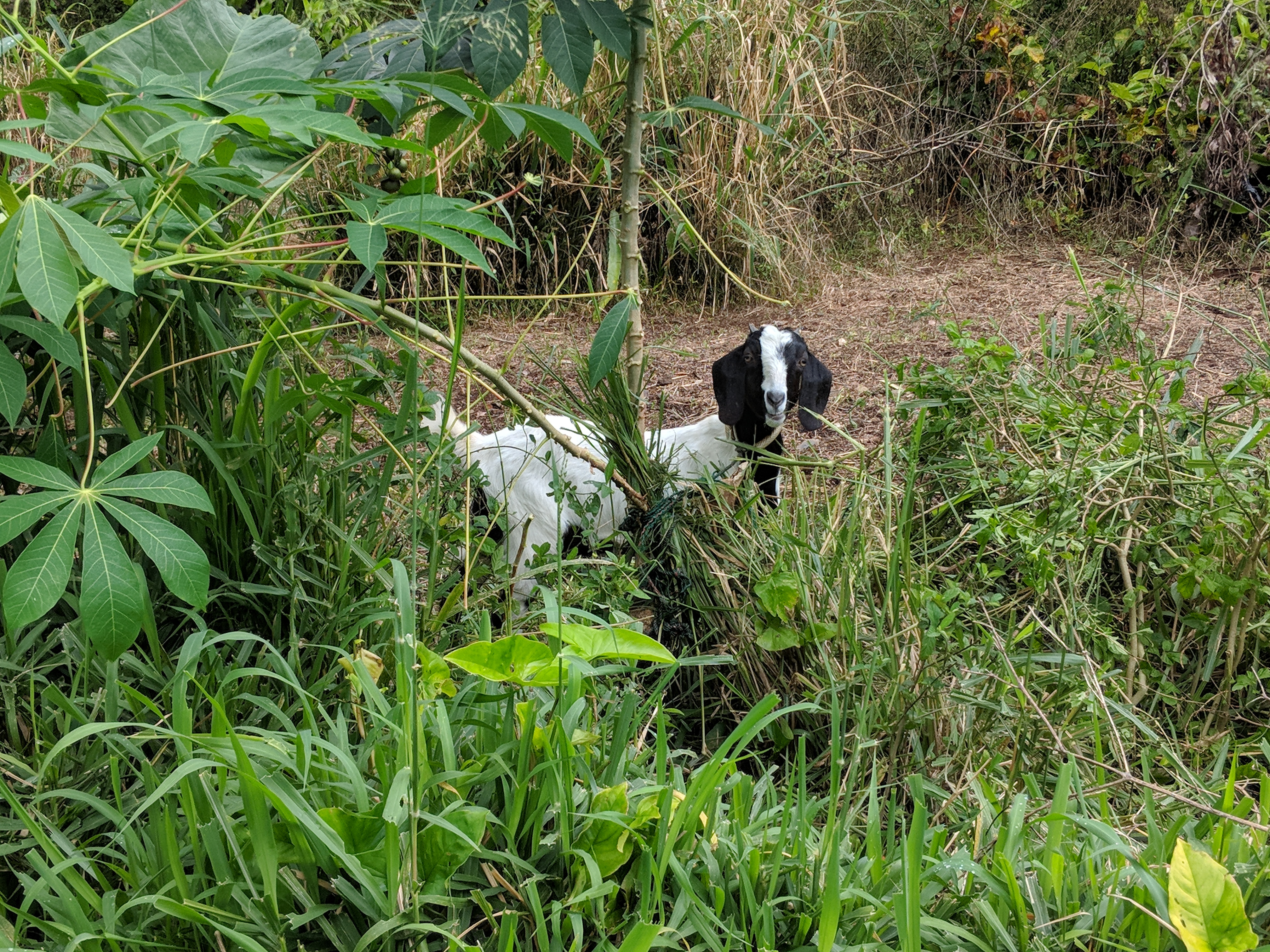 Goat kept in a home garden (pekarangan), Agam, West Sumatra, Indonesia